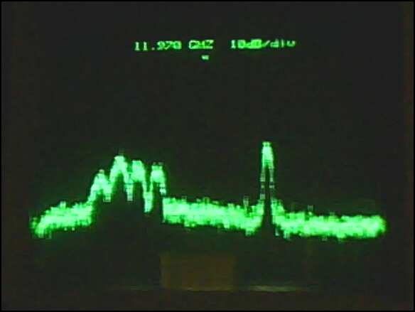 Satellite AMC 5 Horizontial Polarization Transponders on a Tektronix 1705A Scope.